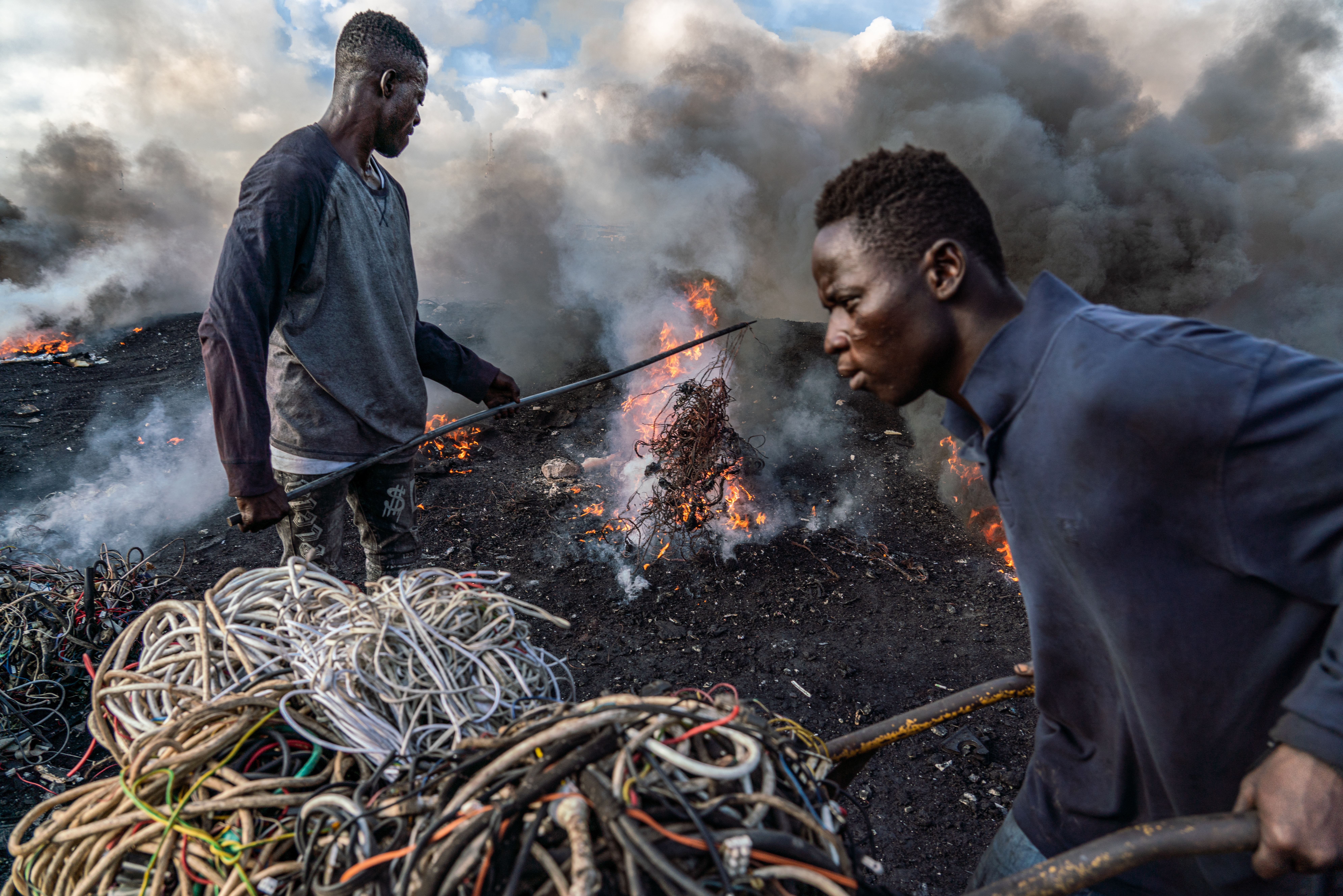 A young man is pictured burning electrical wires to recover copper at Agbogbloshie, Ghana, as another metal scrap worker arrives with more wires to be burned.